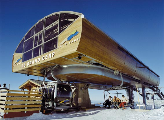 Les 7 Laux